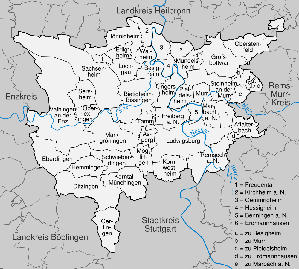 municipalities in distict of Ludwigsburg, Baden-Württemberg, Germany.